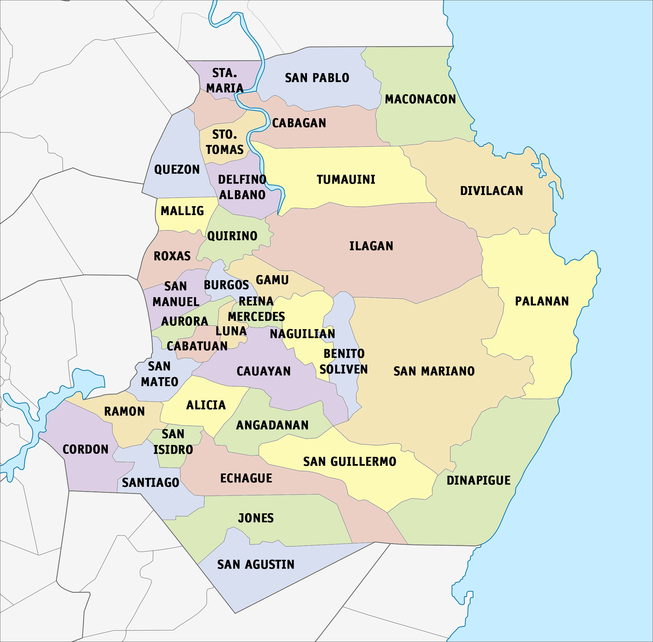 Political map of Isabela , Philippines